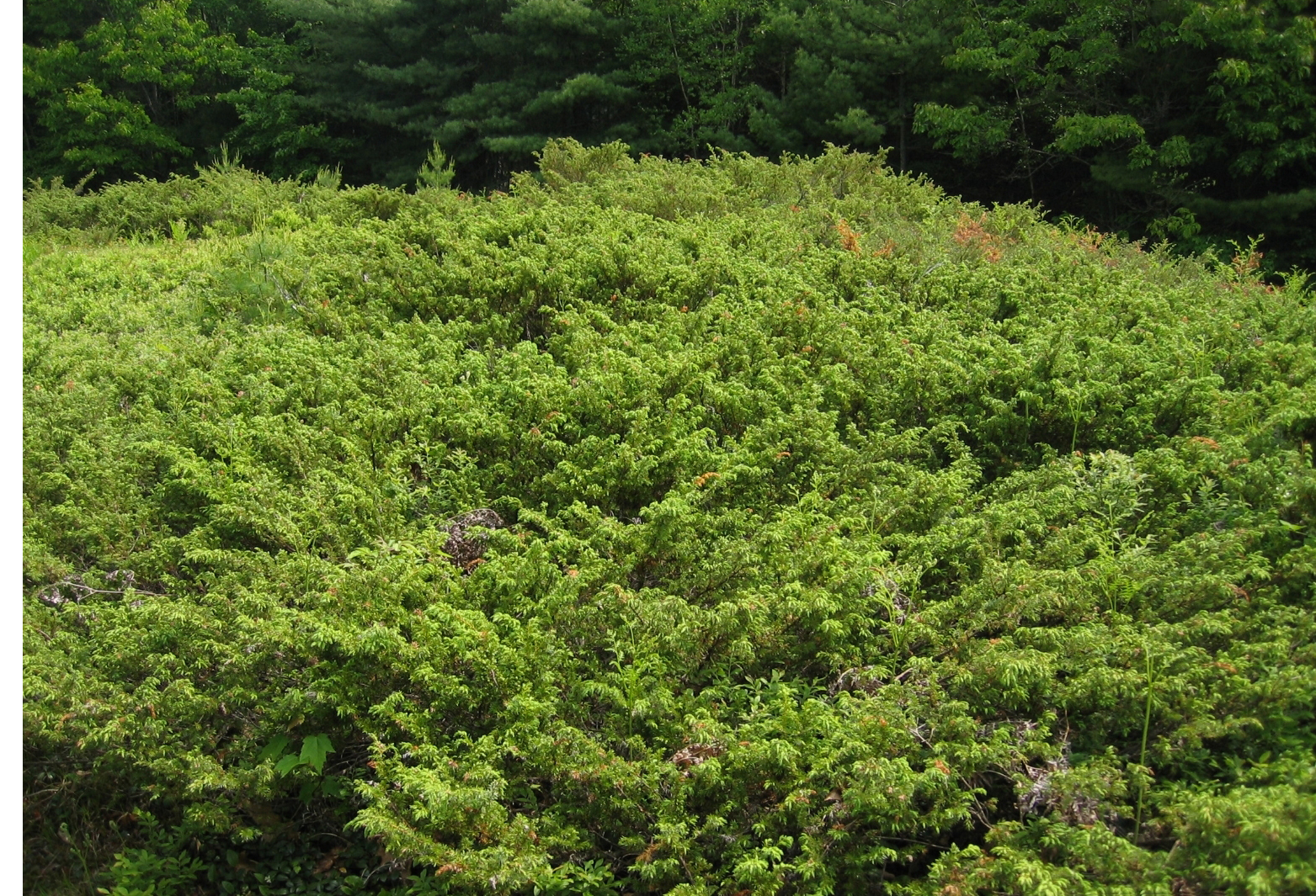 Juniperus communis var. depressa. Plant, Maine.